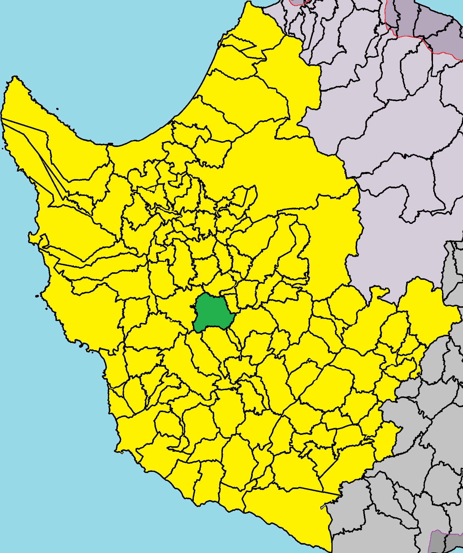 Polemi in Paphos District.